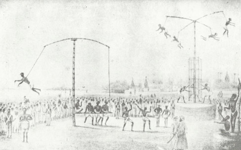 Scanned image of the photograph of an 19th century etching, reprinted in Kolkata Shaharer Itibritta by Benoy Ghosh